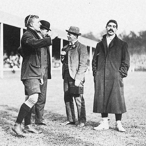 Coin toss between Vincent Henry Cartwright of the Midlands team and Paul Roos, South African captain before their 1906 Rugby union encounter.